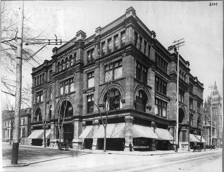 VIEW-2539.1 Henry Morgan's Store, Ste. Catherine Street, Montreal, QC, about 1890 Wm. Notman & Son About 1890, 19th century Notman photographic Archives - McCord Museum VIEW-2539.1 Magasin de Henry Morgan, rue Sainte-Catherine, Montréal, QC, vers 1890 Wm. Notman & Son Vers 1890, 19e siècle Archives photographiques Notman - Musée McCord To see the image file on the McCord Museum website, click on the following link: Pour voir la fiche descriptive de cette photographie sur le site Web du Musée McCord, cliquer le lien suivant